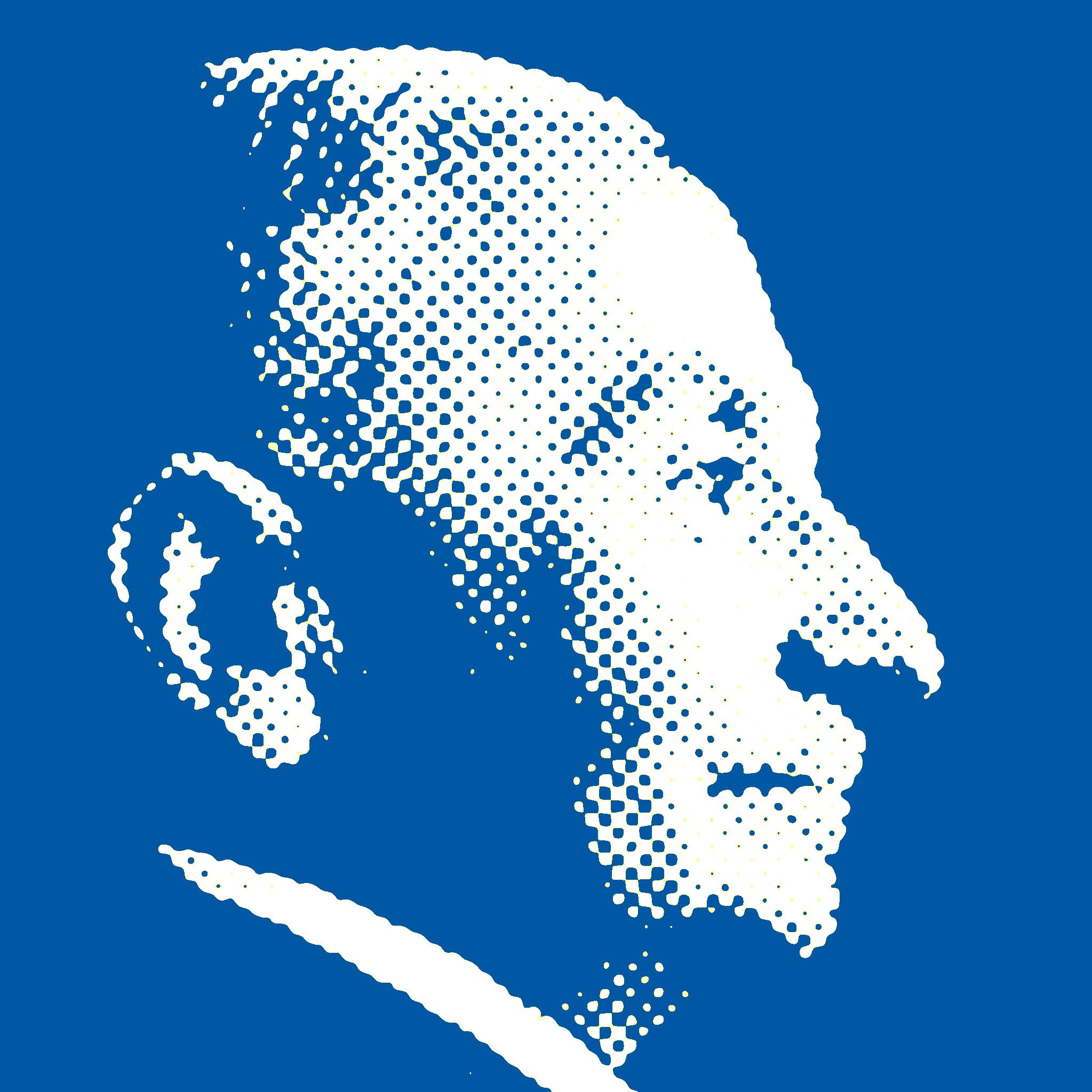 Ludwig von Mises abstract profile. Inspired in a graphic desing by Mises Institute.